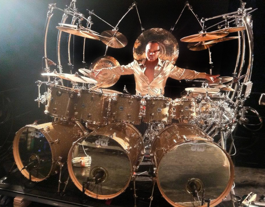 Jonathan "Sugarfoot" Moffett on drums